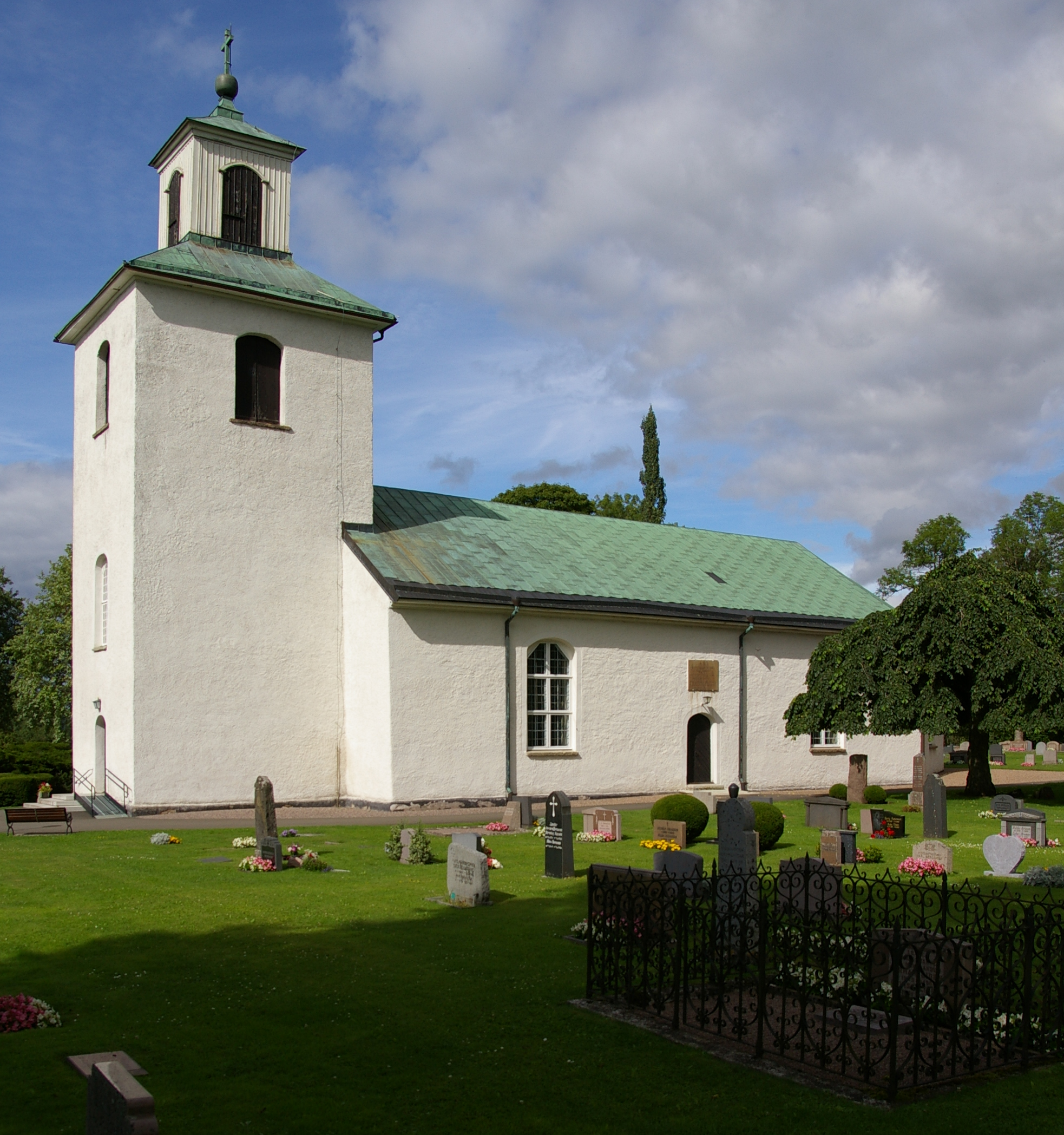 Stenstorps kyrka (Swedish:Church of Stenstorp) in Västergötland, Sweden.